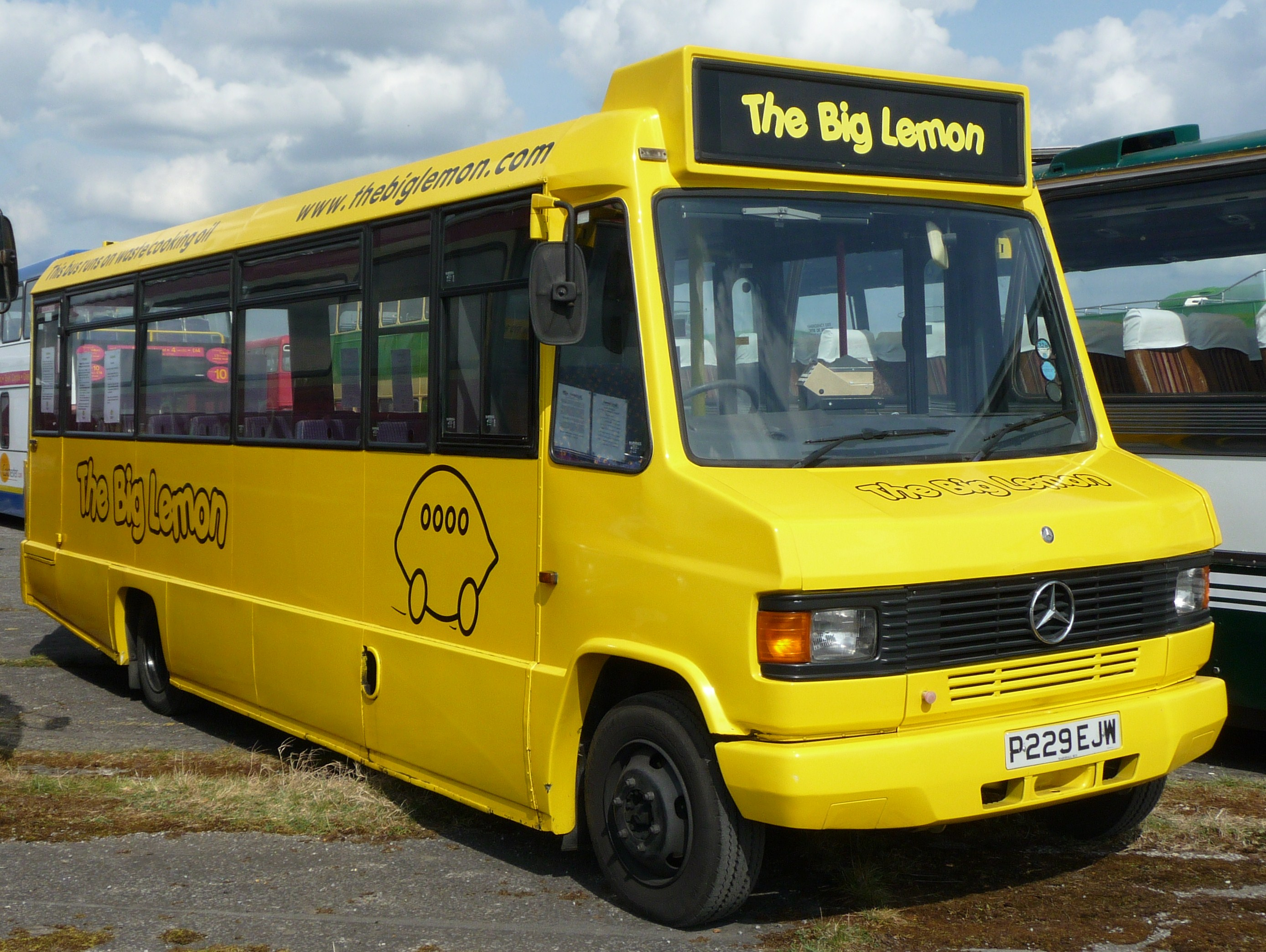 The Big Lemon's P229 EJW, a Mercedes-Benz/Marshall, at the 2009 Cobham bus rally at Wisley Airfield.